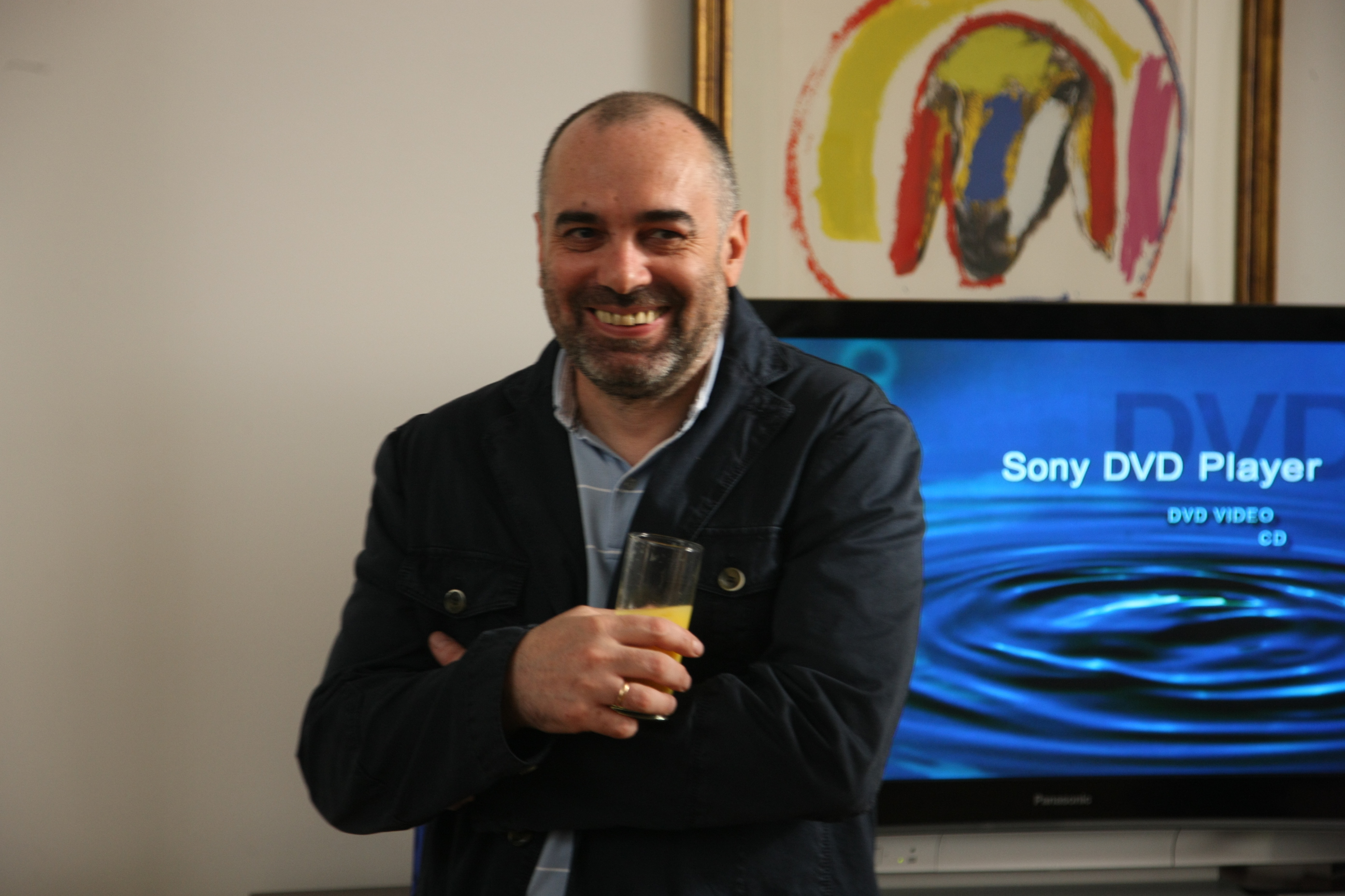 Boris_Minaev